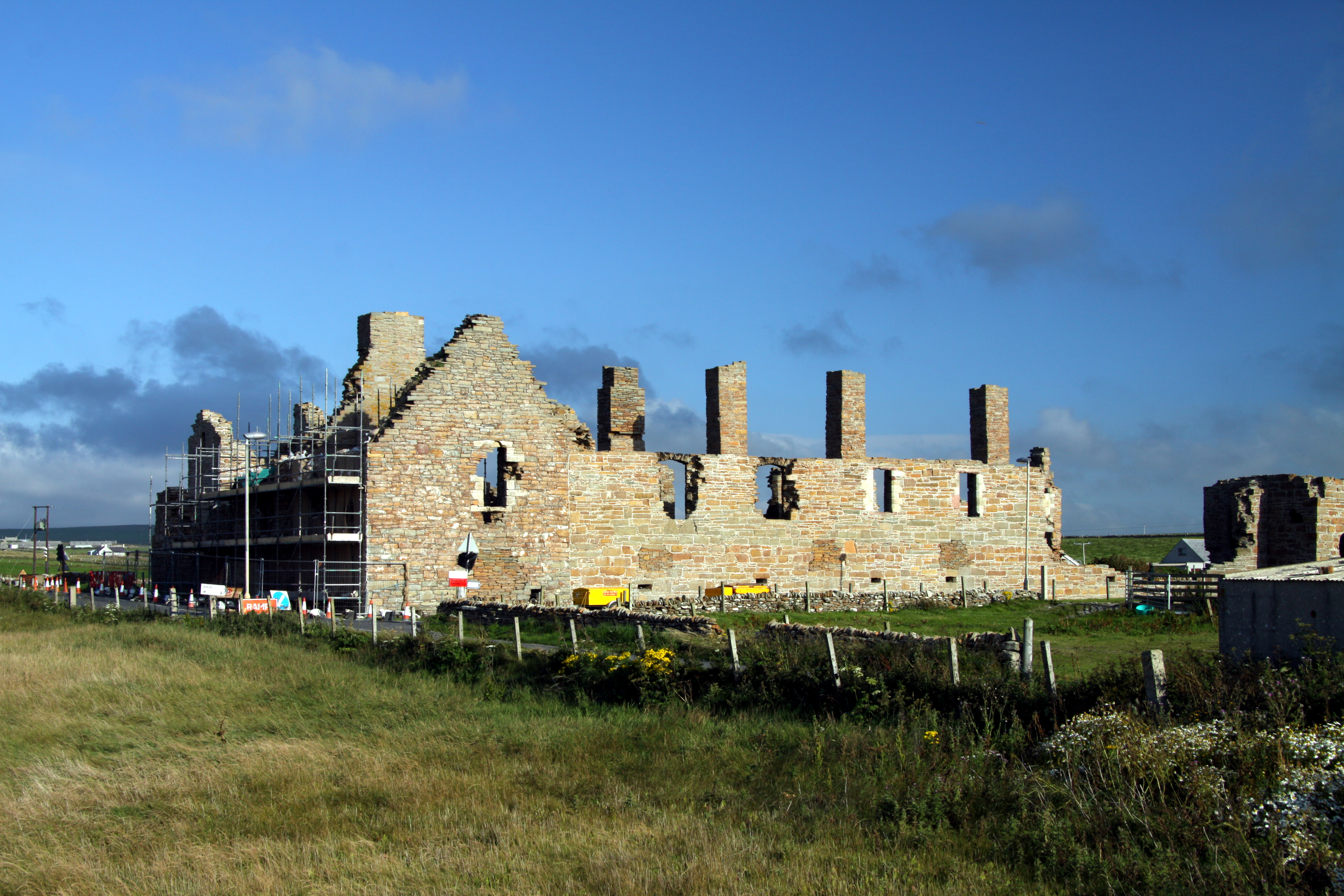 The Earl's Palace in Birsay, Orkney, Scotland, is a ruined 16th-century castle. It was built by Robert Stewart, 1st Earl of Orkney (1533–1593), illegitimate son of King James V and his mistress Euphemia Elphinstone. The palace is a category A listed building and a Scheduled Ancient Monument, and is in the care of Historic Scotland.